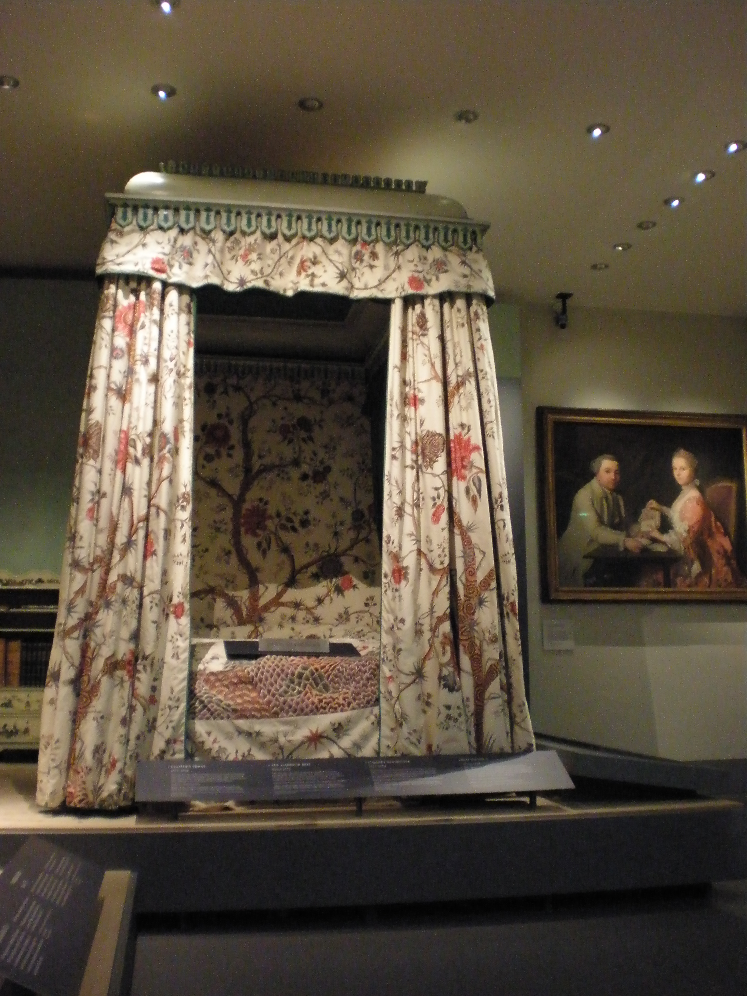 The Garrick Bed About 1775 This was part of a suite of furniture supplied by Thomas Chippendale for the Garricks' best bedroom in their villa. The bed was reduced from a double to a single in the 1860s. A valance from the original hangings is shown nearby. Japanned (painted) beech and pine; the hangings are modern. Made in the London workshops of Thomas Chippendale (born in Otley, West Yorkshire, 1718, died in London, 1779). Given by H.E. Trevor, a direct descendant of David Garrick's brother George Museum No. W.70-1916 Wikipedia Loves Art at the Victoria and Albert Museum This photo of item # [1] at the Victoria and Albert Museum was contributed under the team name "va_va_val" as part of the Wikipedia Loves Art project in February 2009. Victoria and Albert Museum The original photograph on Flickr was taken by Val_McG—please add a comment to the original Flickr page whenever a use has been made on Wikipedia or another project. Project galleries on Flickr: this institution, this team